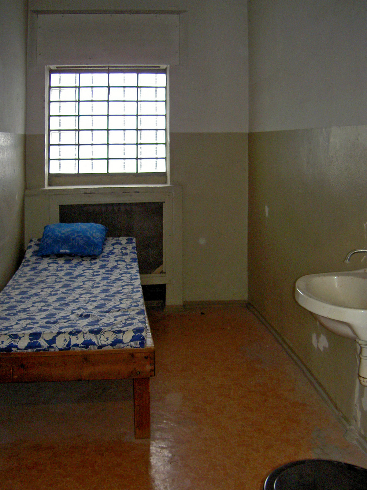 Memorial place Berlin-Hohenschönhausen. Former institute for remand of the German Democratic Republic.